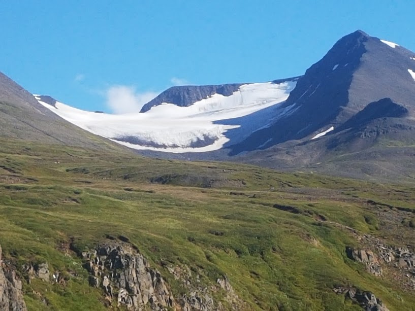 Kambsmýrarjökull á Flateyjardalsheiði